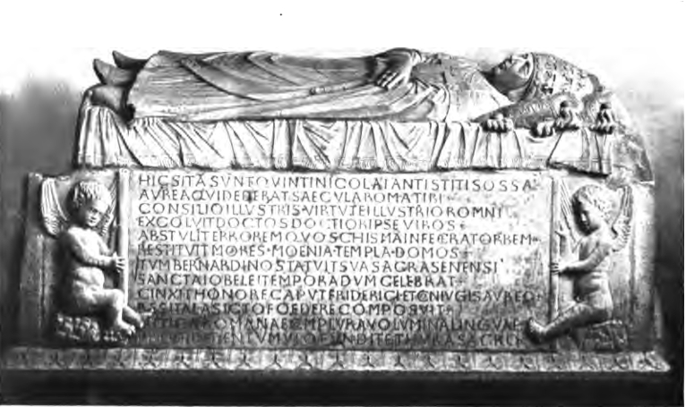 From Gerald Stanley Davies Renascence: The Sculptured Tombs of the Fifteenth Century in Rome, with Chapters on the Previous Centuries from 1100 (1916)